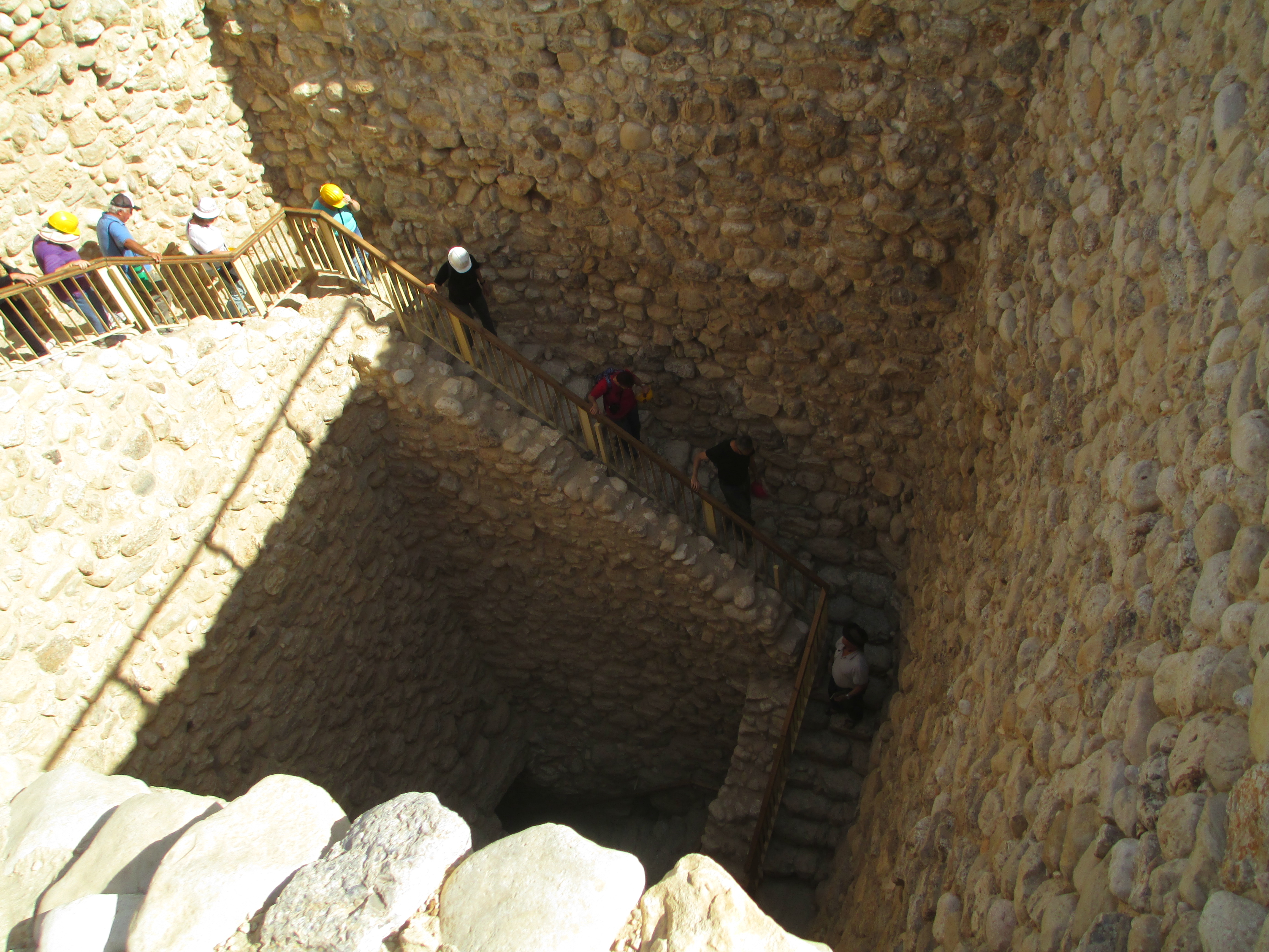 Stairs to Water reservoire in Tel Be'er Sheva